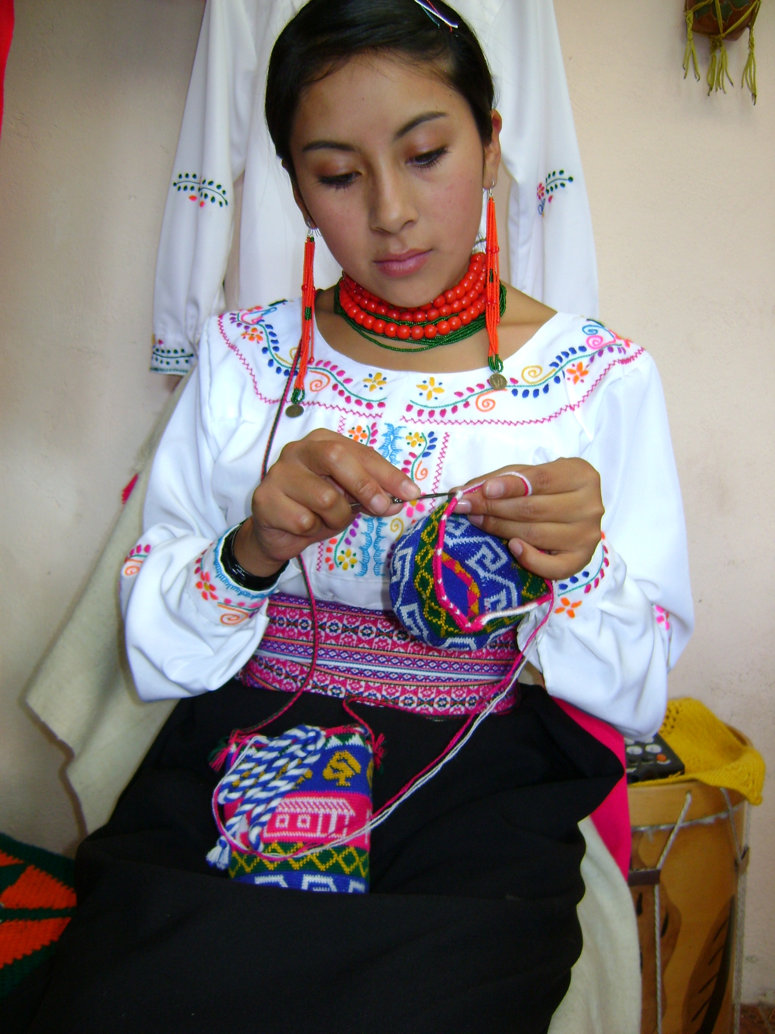 Dress of the women of the people of Cacha